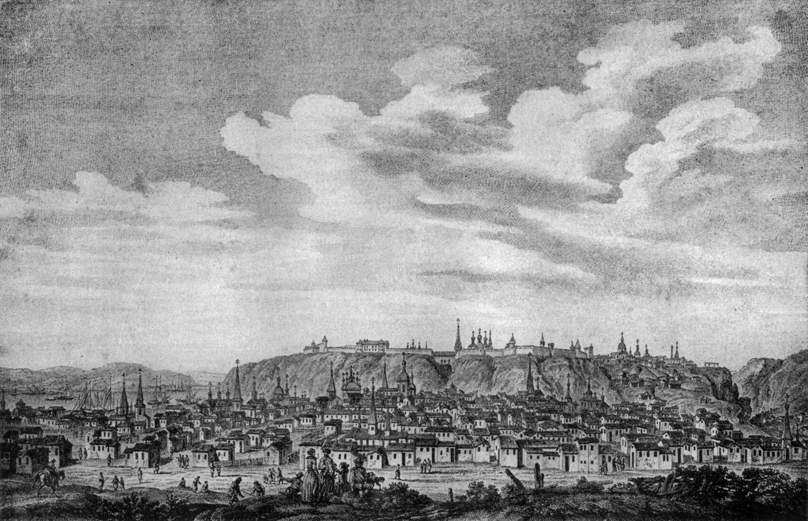 City of Tobolsk. Alfred Nicolas Rambaud.